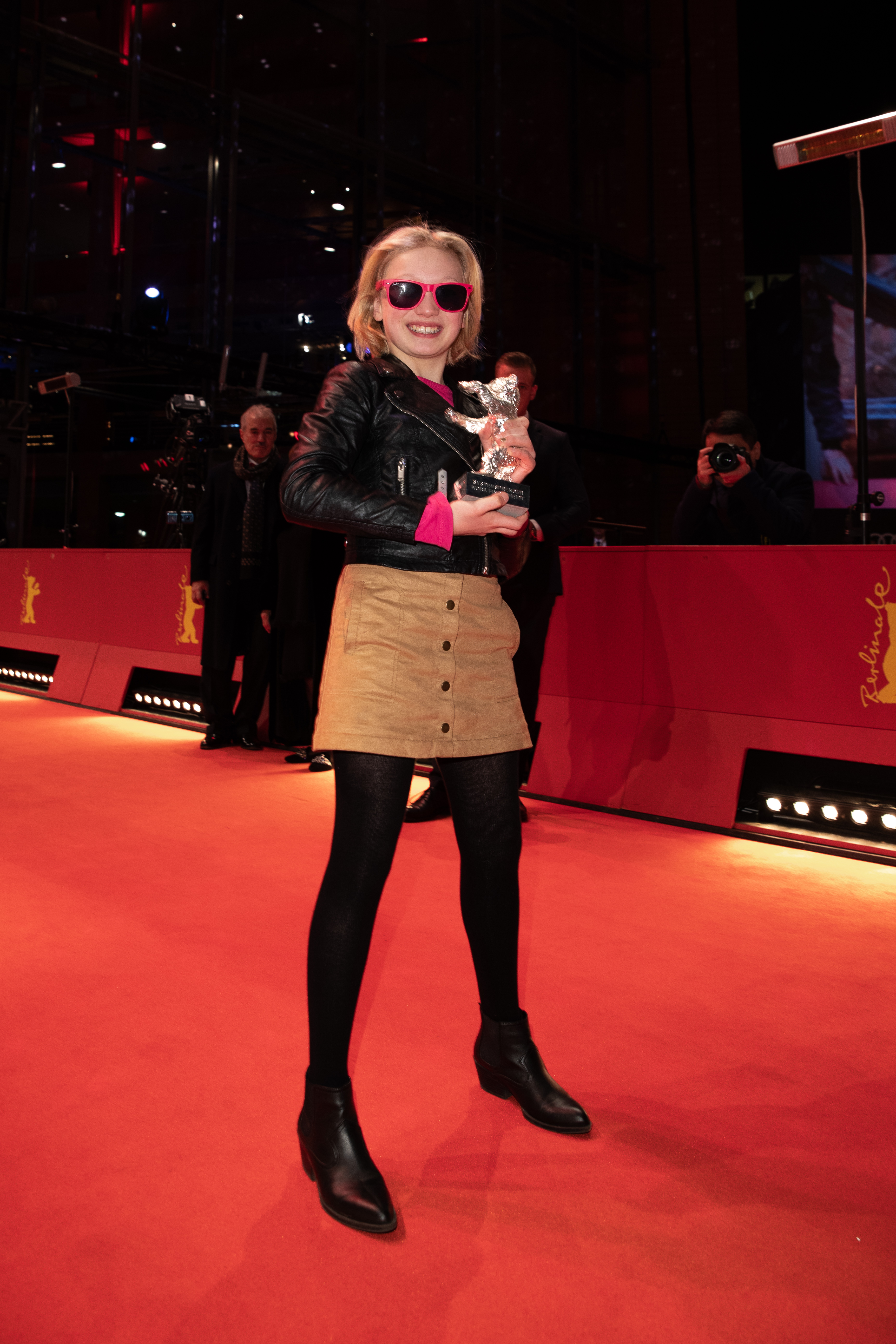 Actress Helena Zengel with teh silver bear for "Systemsprenger" on the red carpet of the Berlinale closing gala 2019.